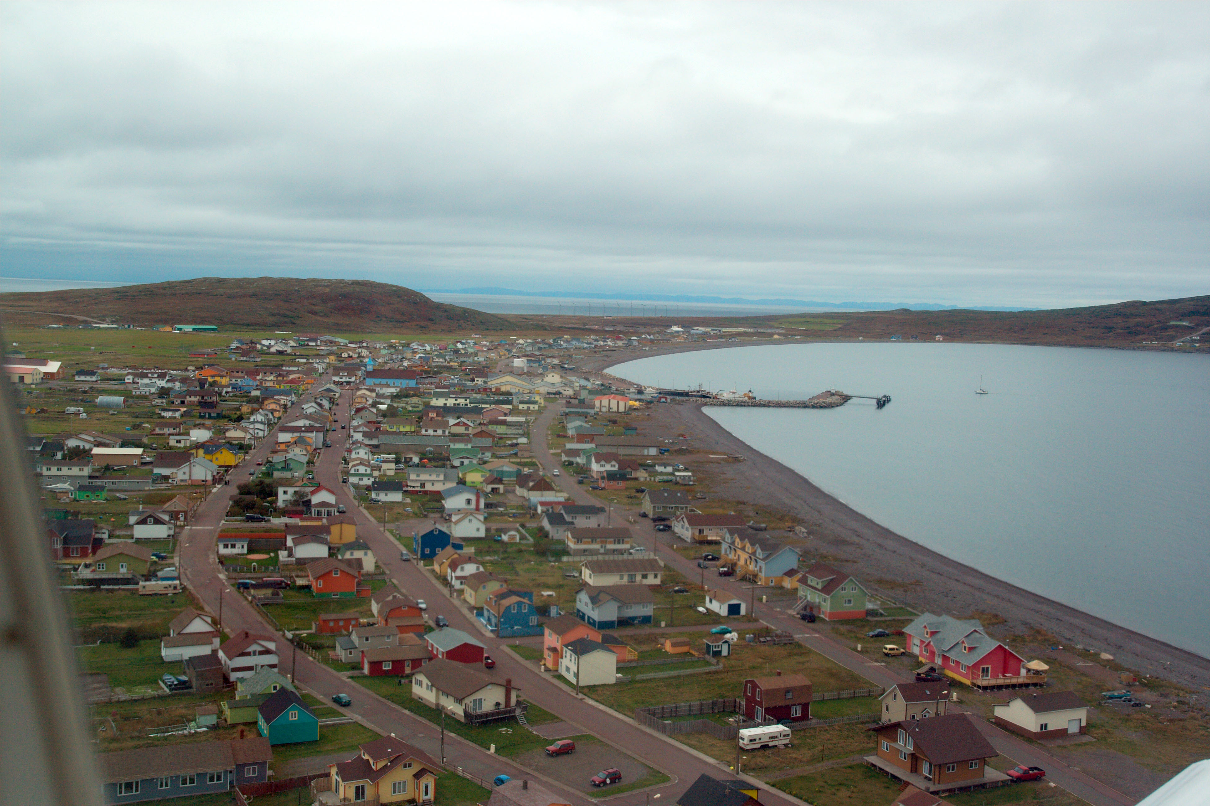 Miquelon Town, from plane (Cessan F406, Air Saint Pierre).